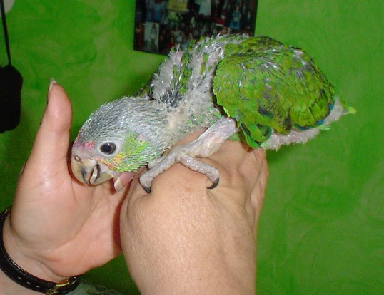 Midori, a baby Red-lored Parrot, shown at age of 6 weeks.